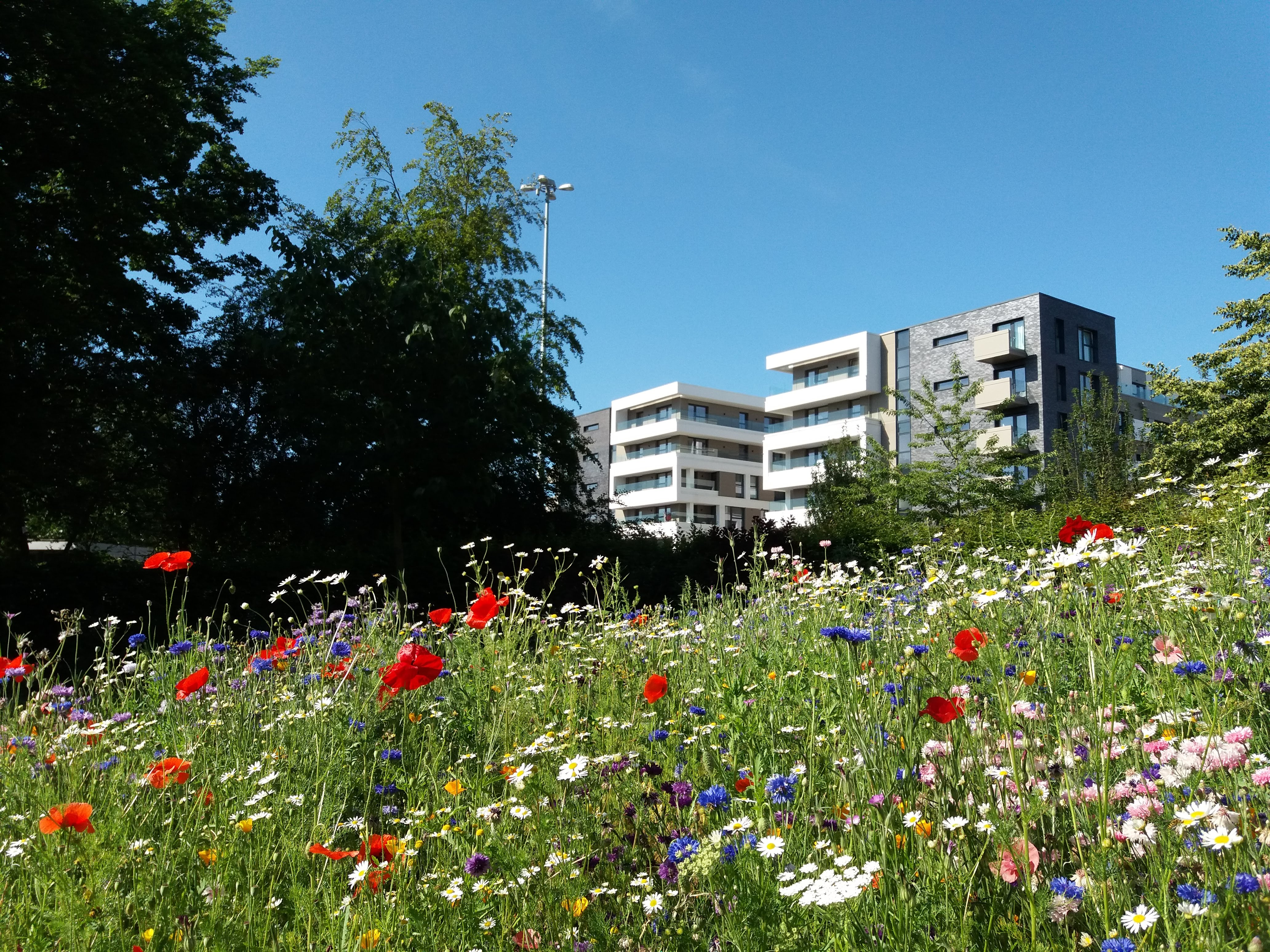 The newly developed Park Place from Stevenage Town Centre Gardens